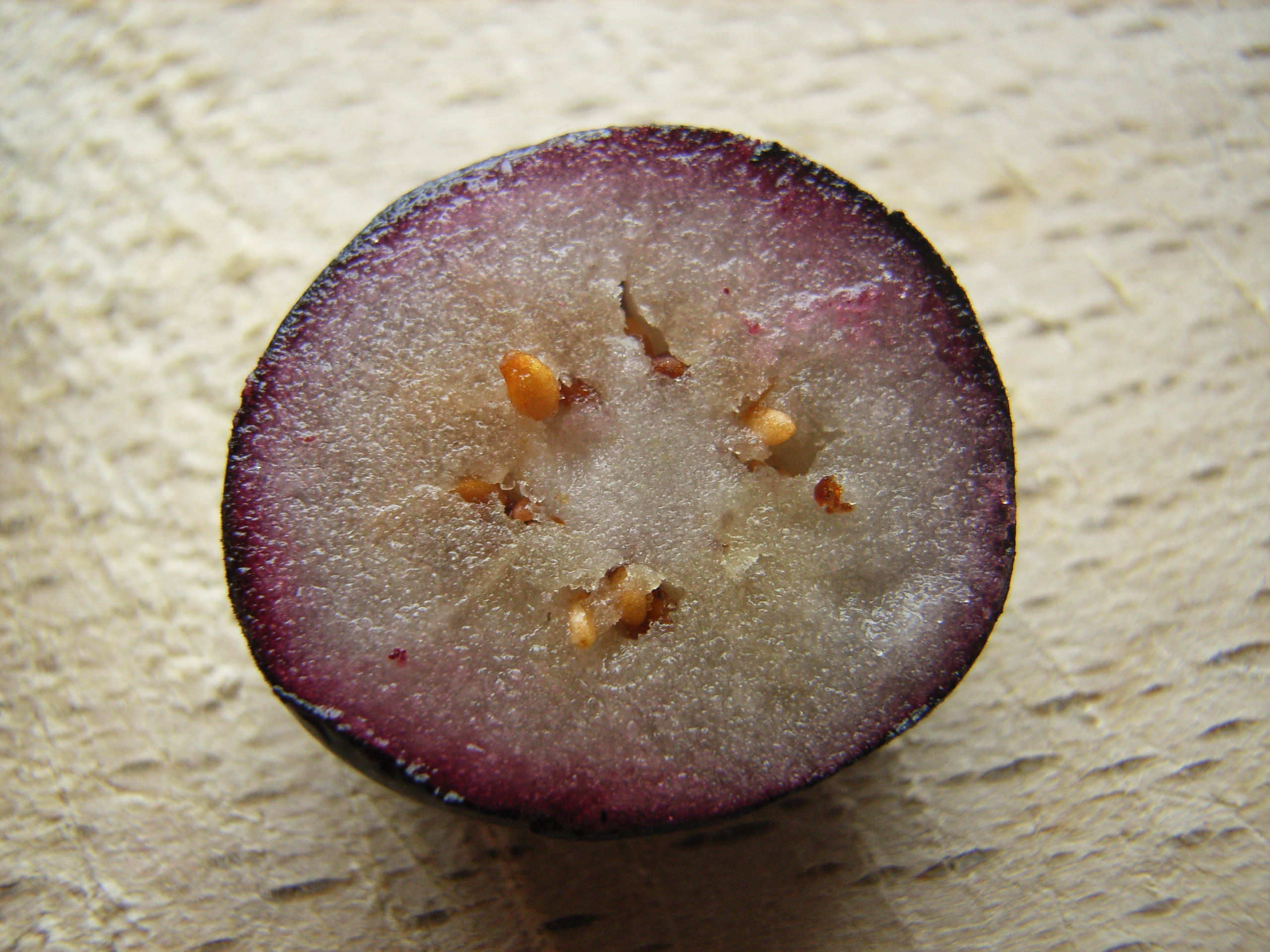 Vaccinium cf. corymbosum, fruit